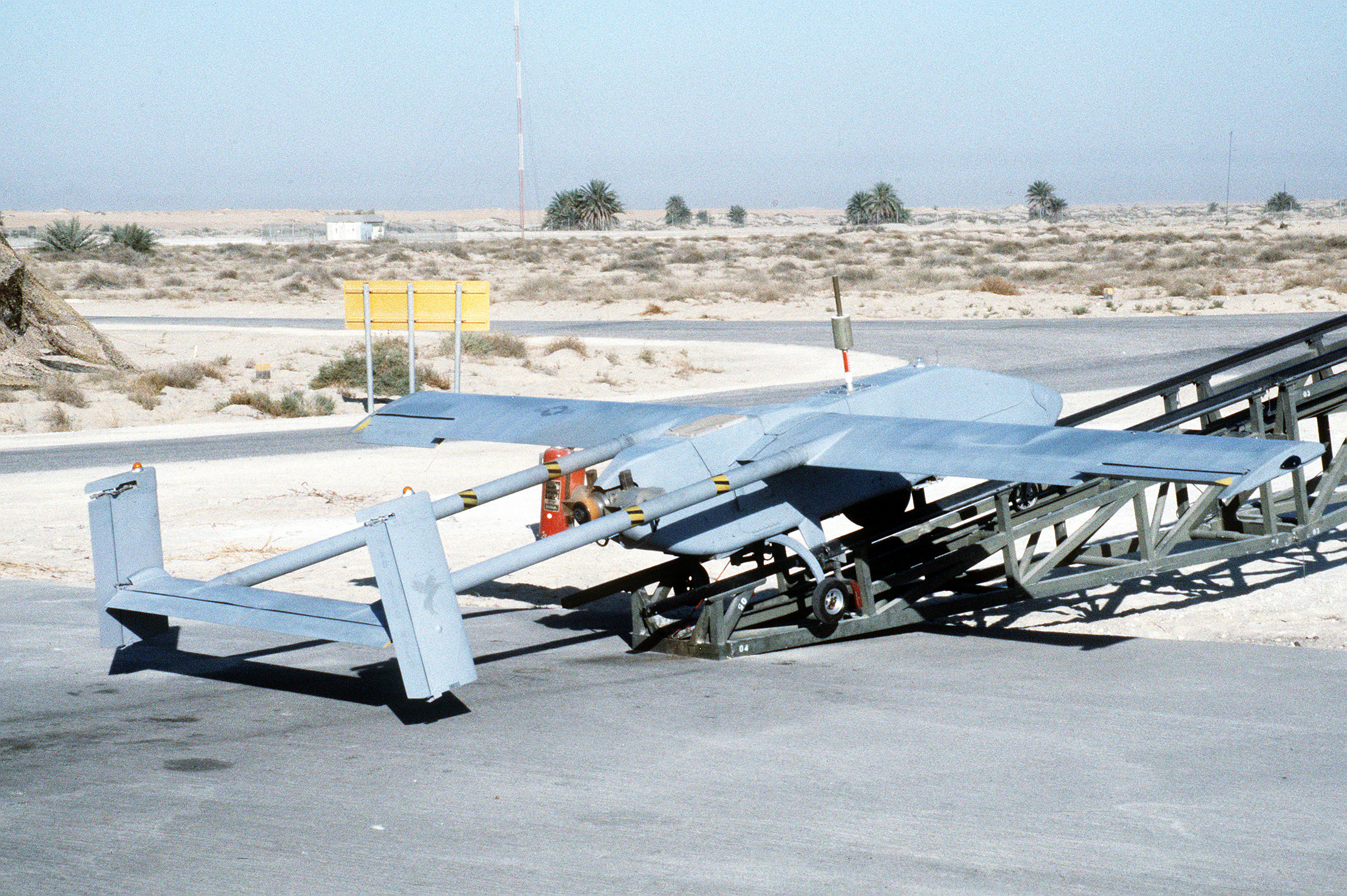 A Pioneer remotely piloted vehicle (RPV) assigned to the Marine Corps' 3rd RPV Platoon sits at the bottom of its launch rail prior to a flight during Operation Desert Shield.